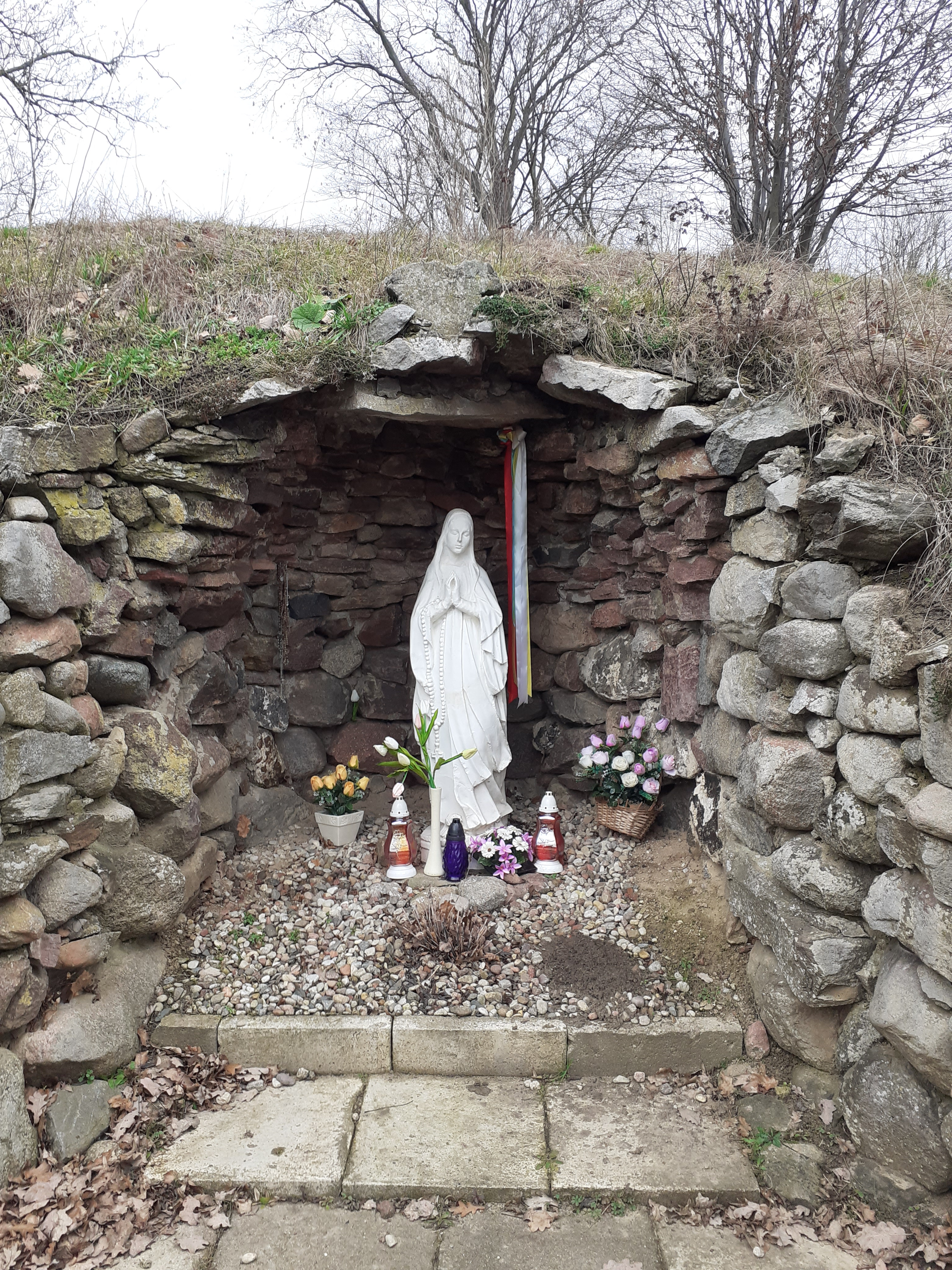 Zrobione przeze mnie telefonem zdjęcie groty z Matką Boską ufundowaną przez Józefa Hallera